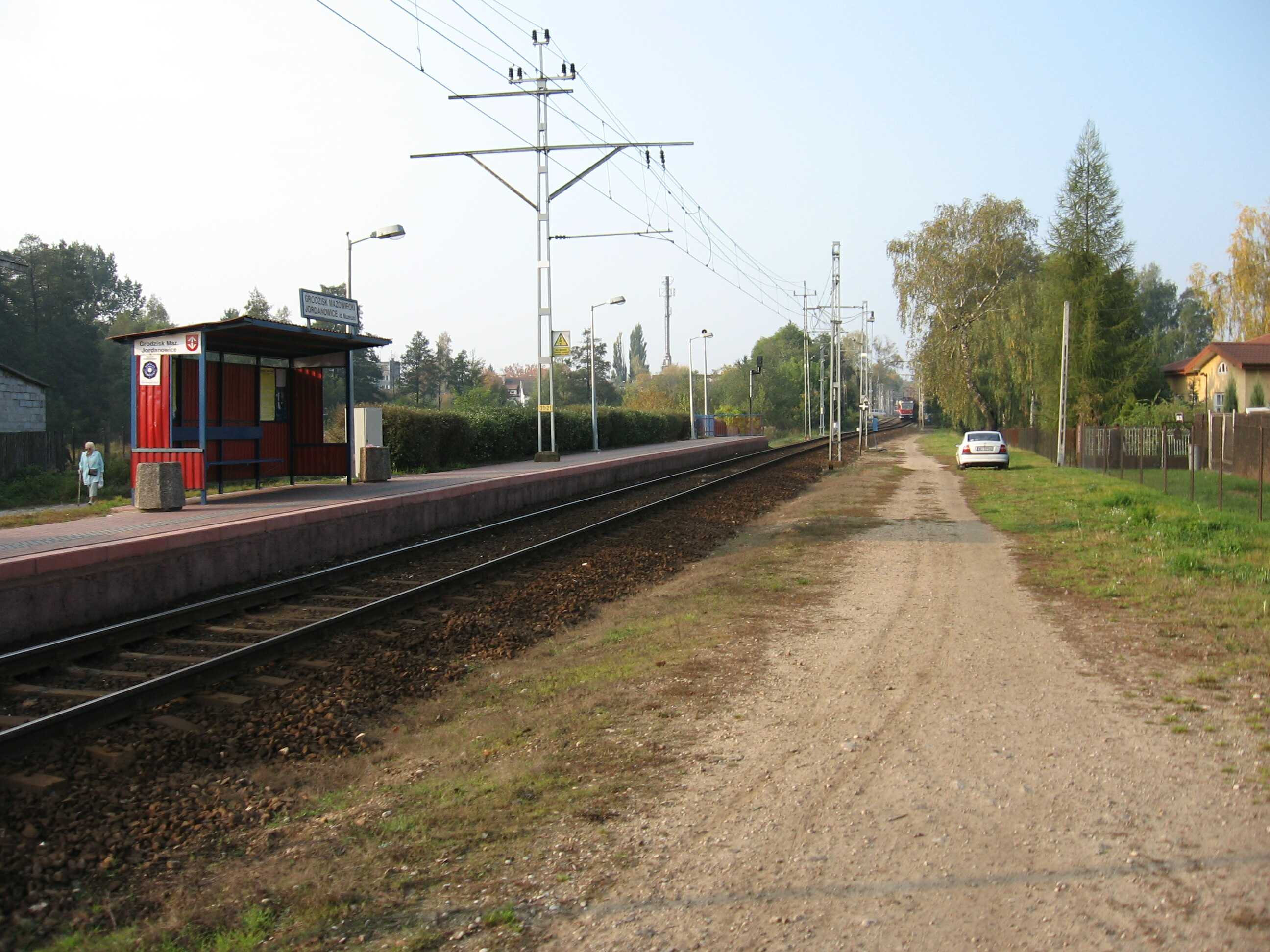 Grodzisk Mazowiecki Jordanowice commuter train stop owned by Warsaw Commuter Rail (WKD).